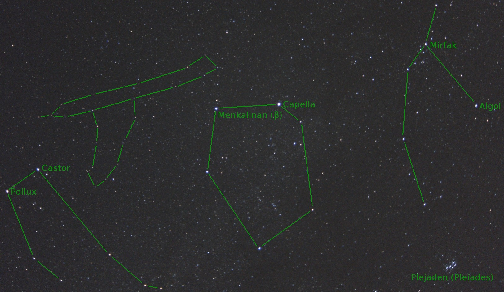 Photograph of the constellation Telescopium Herschelii with constellations Gemini, Auriga and Perseus marked. (Photograph details: Canon S95, 15 s, f/2.0, ISO 3200, stack of 10 images)